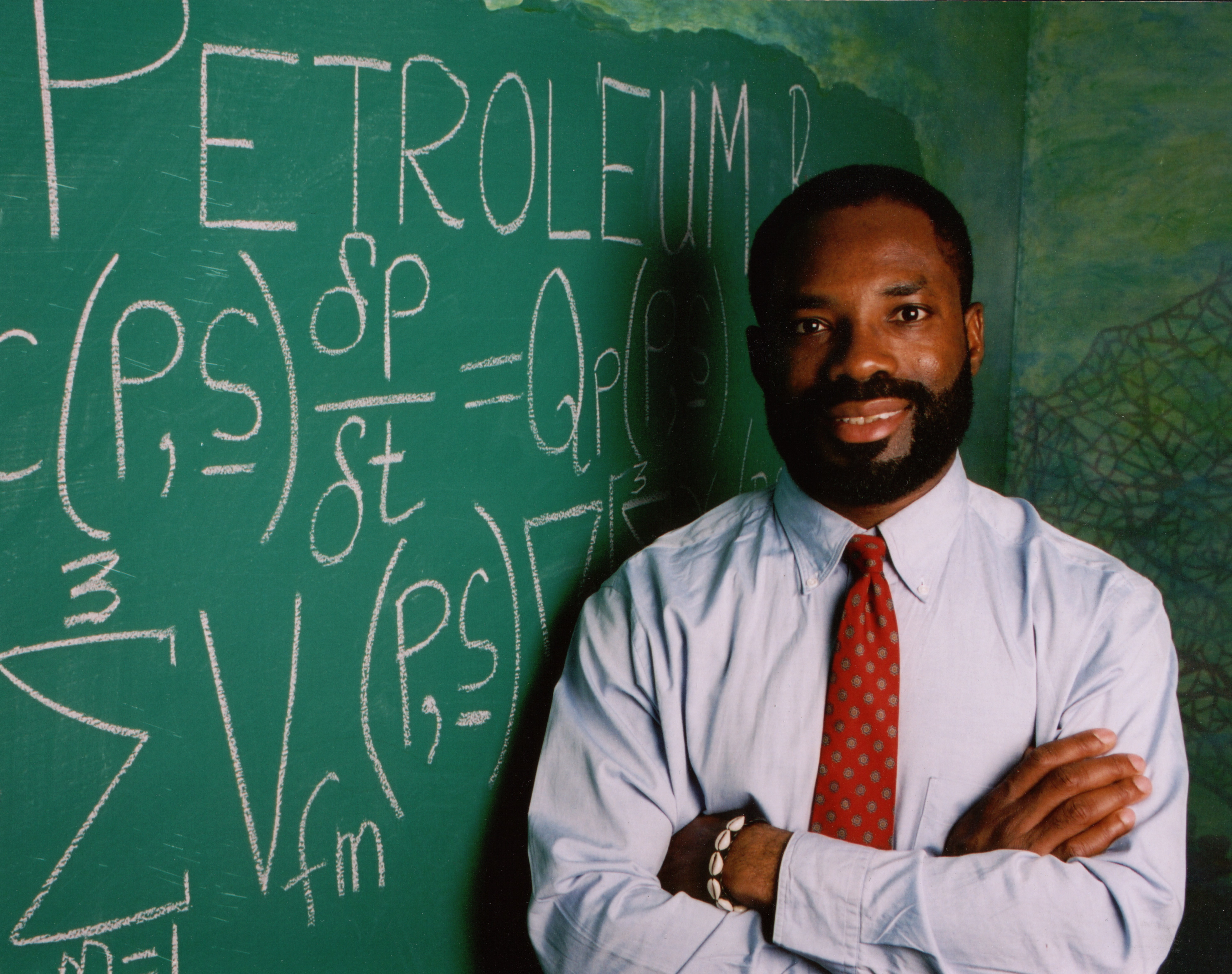 Philip Emeagwali with scribbled Exxon-Mobil partial differential equations for petroleum reservoir simulations across an internet powered by 65,536 computers.